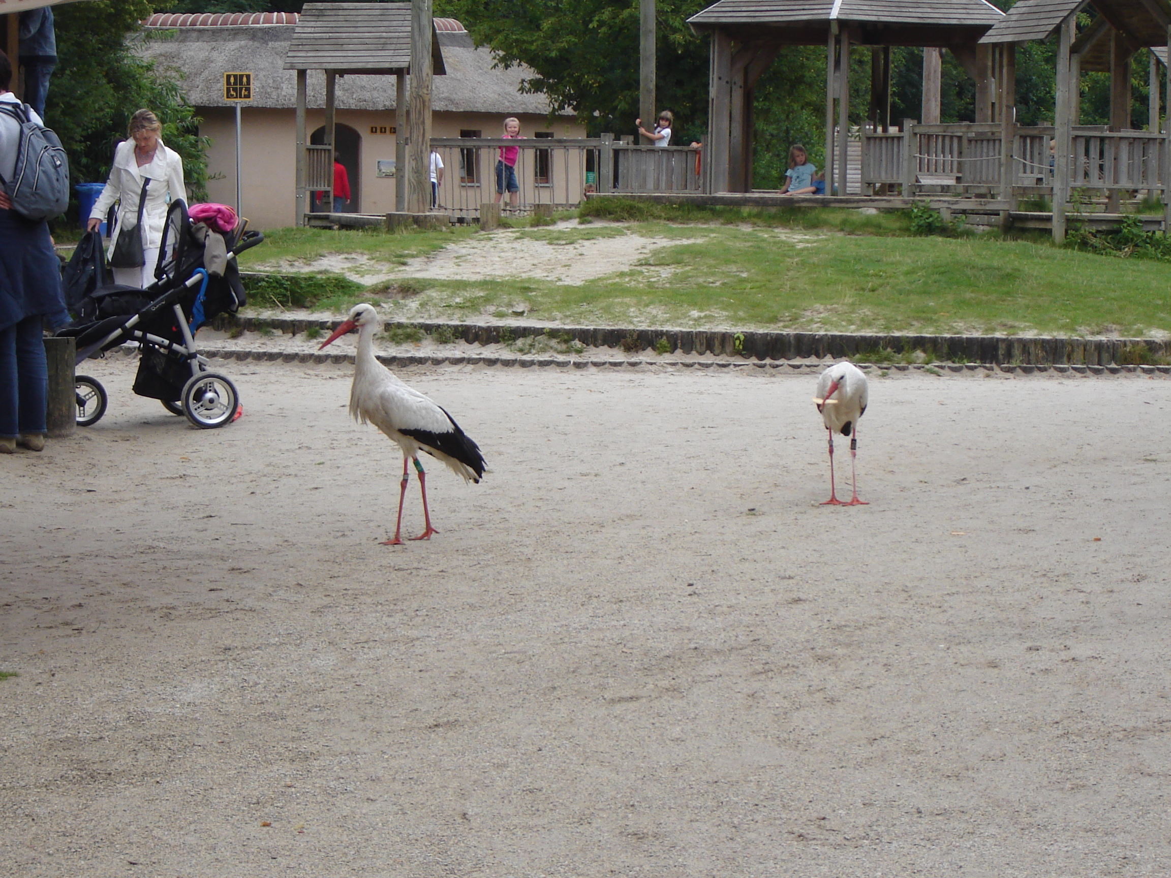 White Storks in Planckendael. Muizen, Mechelen, Antwerp, Belgium